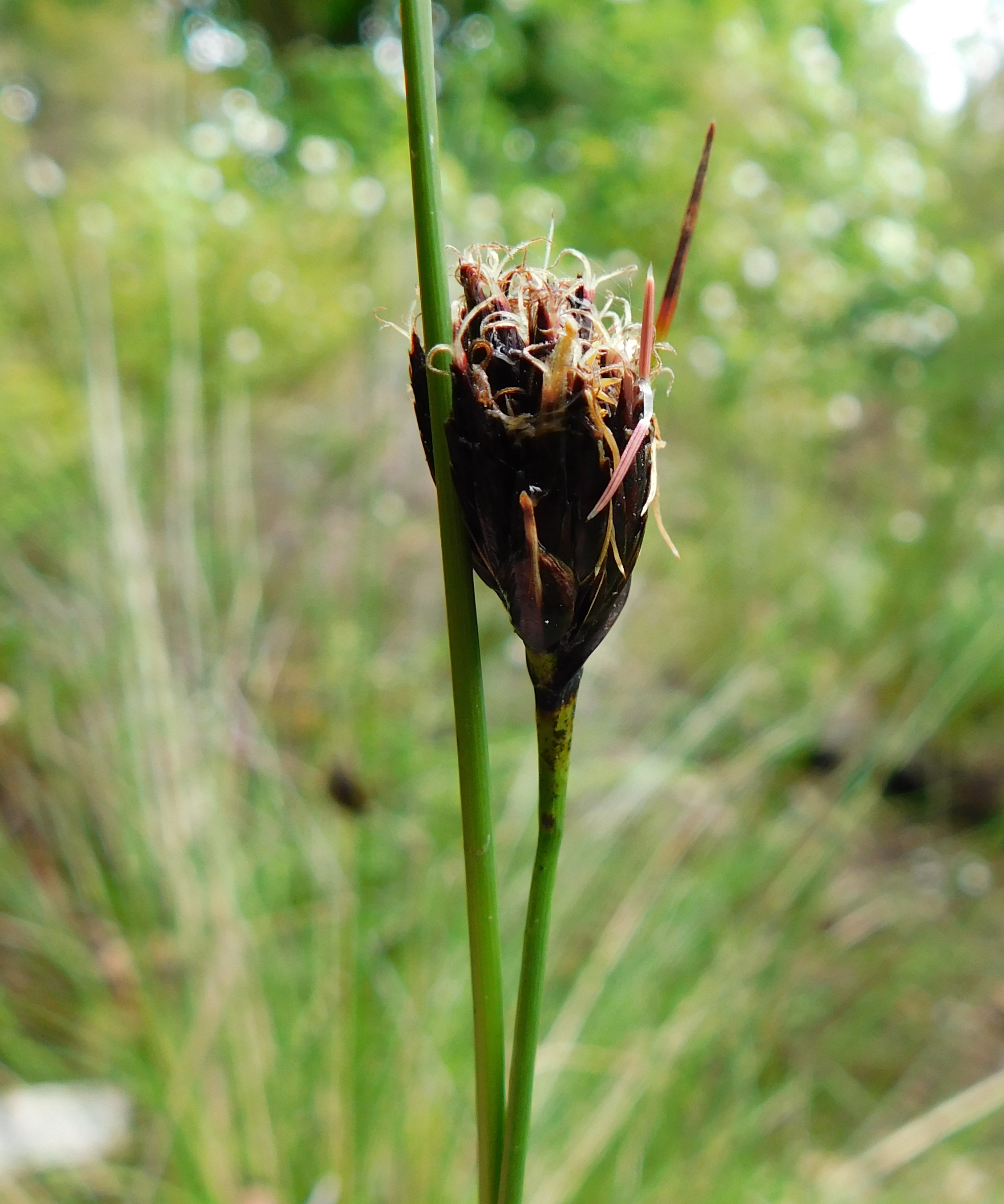 Schoenus nigricans at the University of California Botanical Garden, Berkeley, California, USA. Identified by the garden signage.